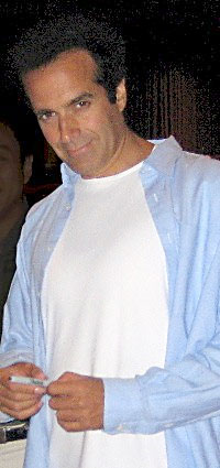 A picture of David Copperfield I took after a show in 2006